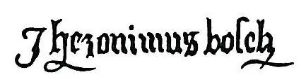 autograph of the painter Hieronymus Bosch